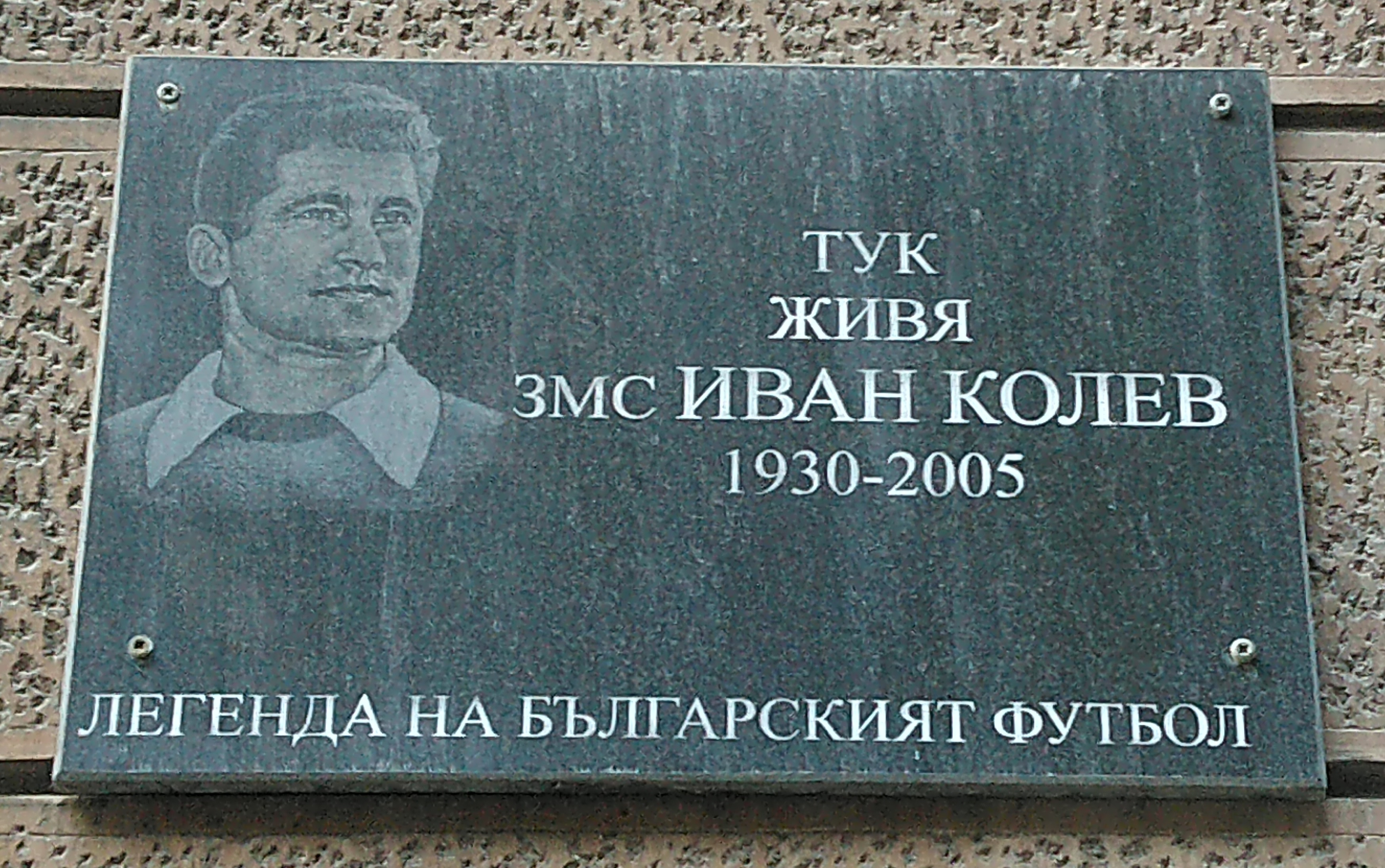 Memorial plaque of Ivan Kolev, 25 Yuri Venelin, Sofia